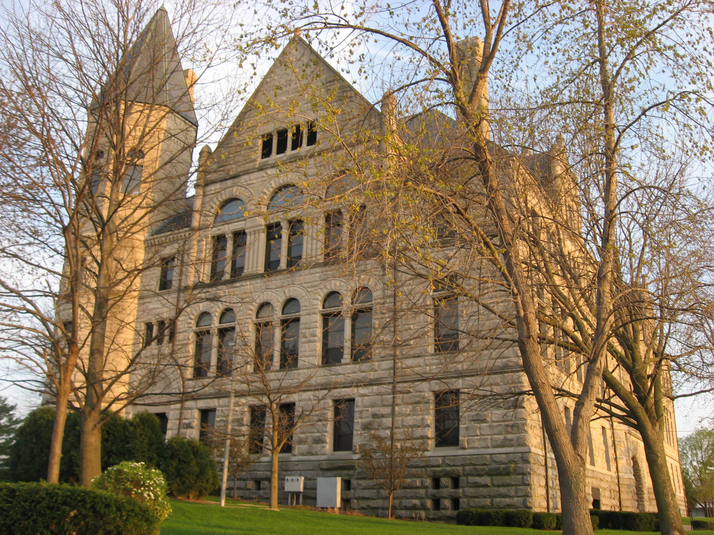 Front of the Wayne County Courthouse, located along U.S. Route 40 (S. A Street) in downtown Richmond, Indiana, United States. Built in 1890, it is listed on the National Register of Historic Places.